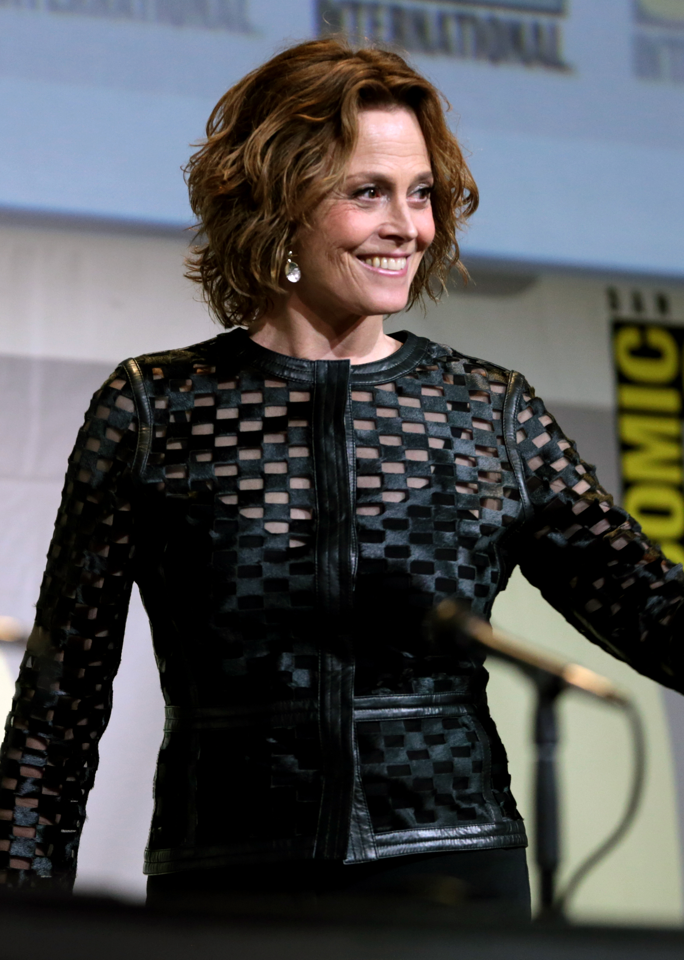 Sigourney Weaver speaking at the 2016 San Diego Comic Con International, for "Aliens: 30th Anniversary", at the San Diego Convention Center in San Diego, California.